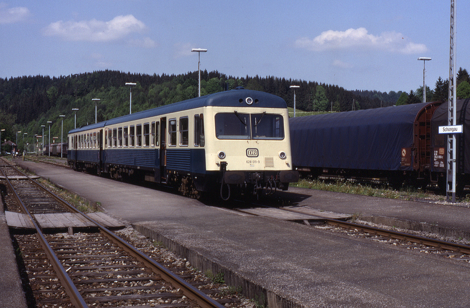 17 prototype class 628/0 sets were built for DB in the mid-1970s being based at Kempten depot. Thewy were the forerunners to a huge build of further 2-car sets during the 1980s and 1990s which largely dispaced loco hauled sets as well as 4-wheeled railbuses on non-electrified lines. Seen at Schongau on 19 May 1992 is set 628.001 (coupled with 628.011) on train 5673, 16:04 Schongau to Weilheim (Oberbayern).